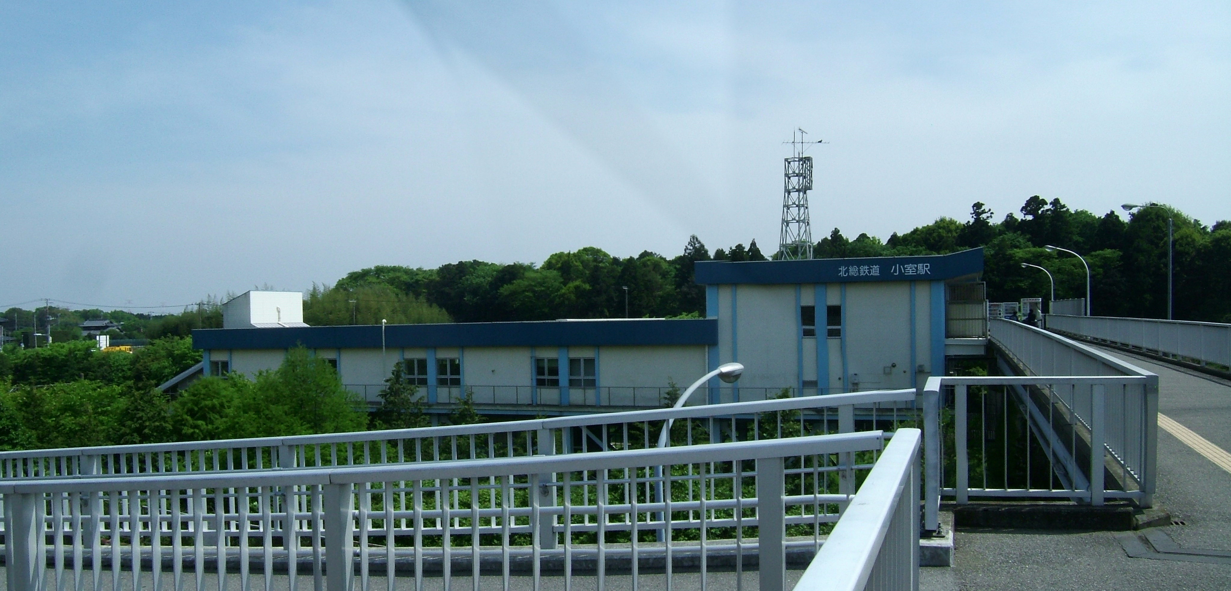 The Building of Komuro Station on the Hokusō Railway in Funabashi city, Chiba prefecture, Japan